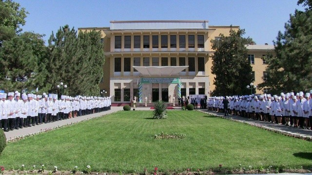 Samarkand institute veterinarnoy meditsiny, ranee nazyvaemyy Samarkand Selskozhozyaystvenniy institute, by the order of 1929. Institut yavlyaetsya odnim iz krupneyshix vuzov Tsentralnoy Azii po veterinarnoy meditsine. V nastoyashchee vremya institute gotovit vysokokvalifitsirovannyx bachelor, magistrov, kandidatov i doktorov nauk.